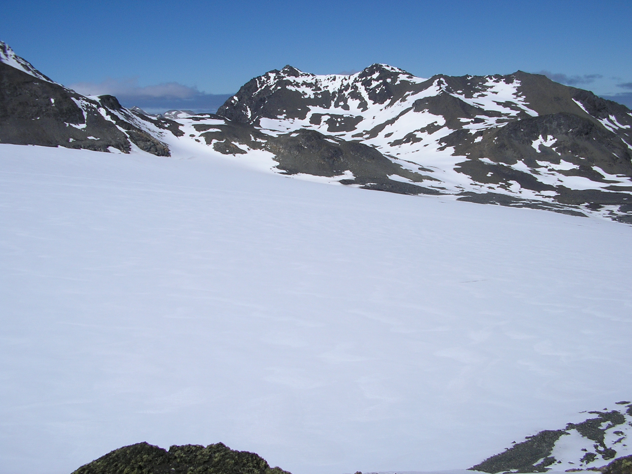 Castro Peak is the one on the left.